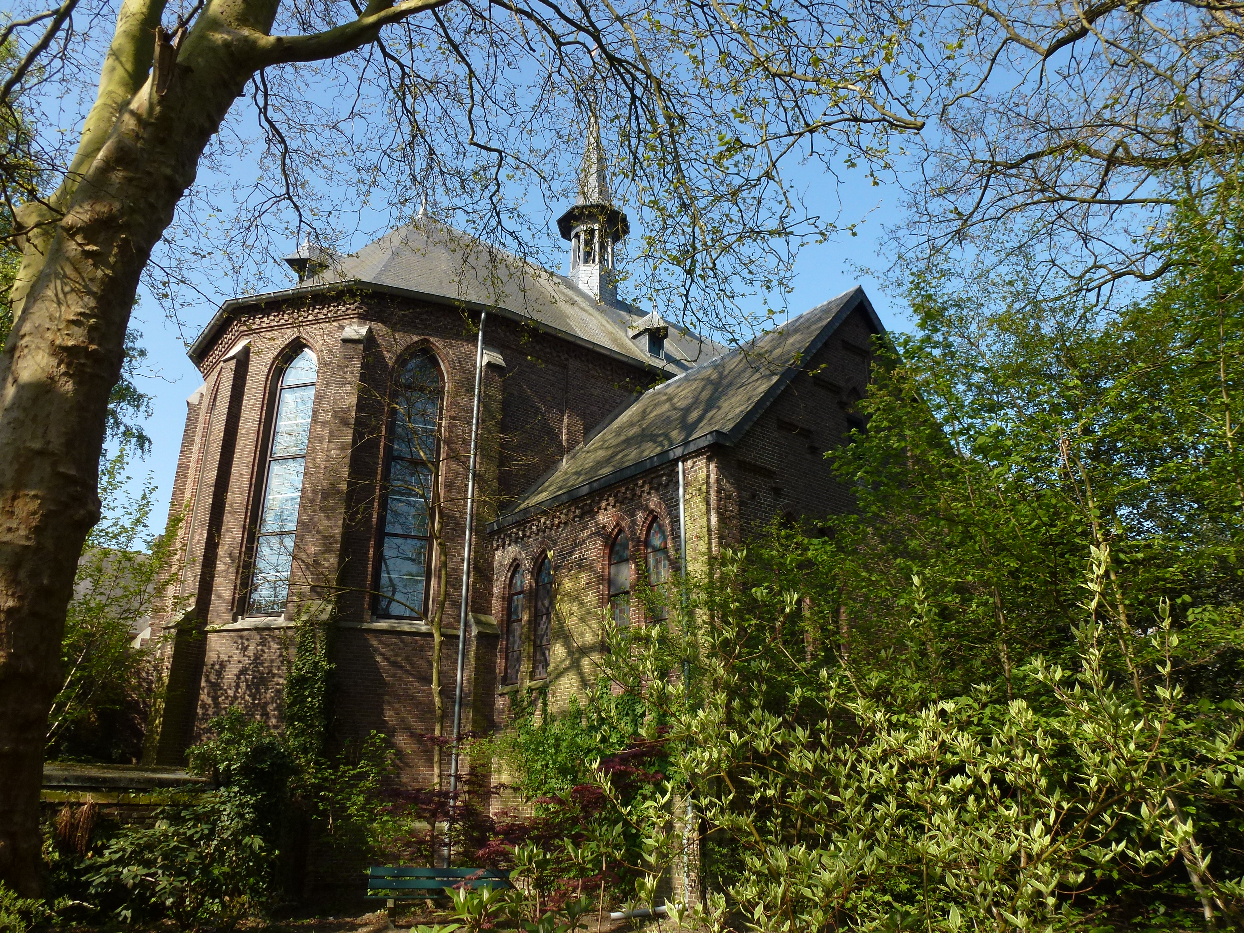 Abdij Lilbosch (Echt-Susteren) kerk exterieur priesterkoor